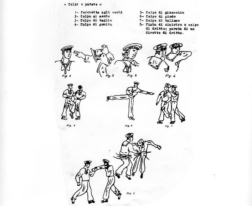 page scanned from italian navy physical training regulation describing some self-defence tecniques